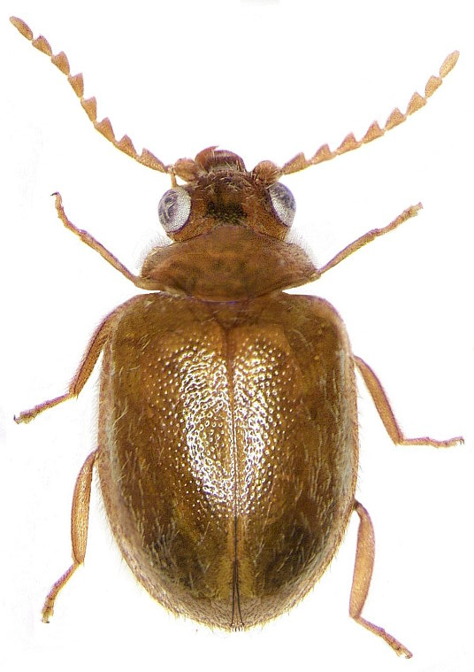 Dorsal view of Prionocyphon serricornis (Scirtidae). The specimen was captured in Thuringia (Germany).